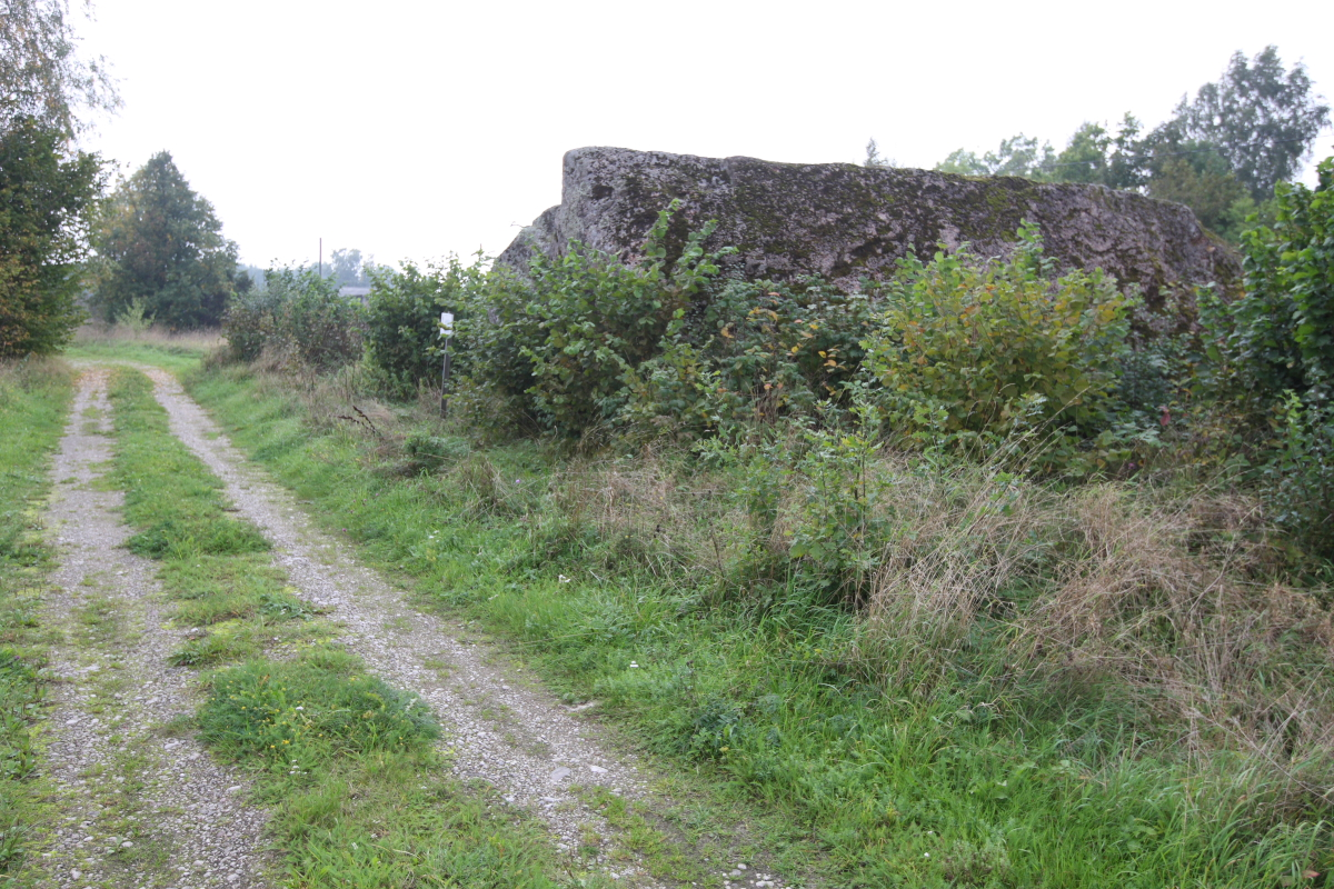 Mihkli-Jaagu stone, Lääne County, Estonia